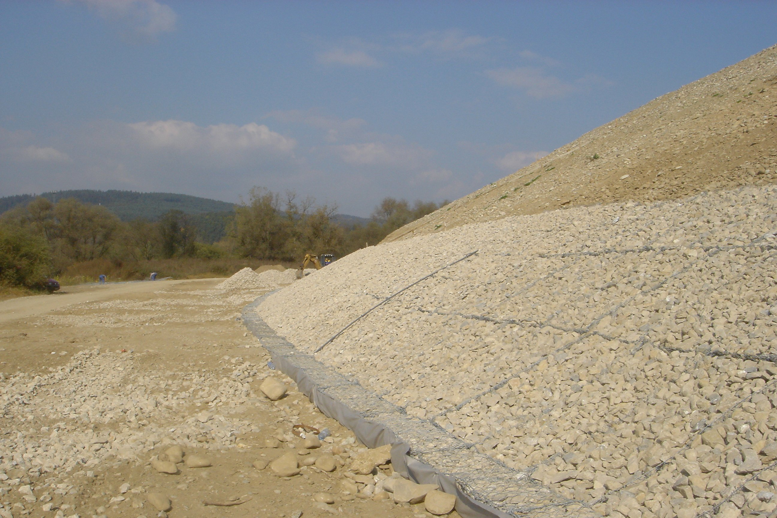 Up close view of a bank protection made with mattresses in Vrtižer, Slovakia.